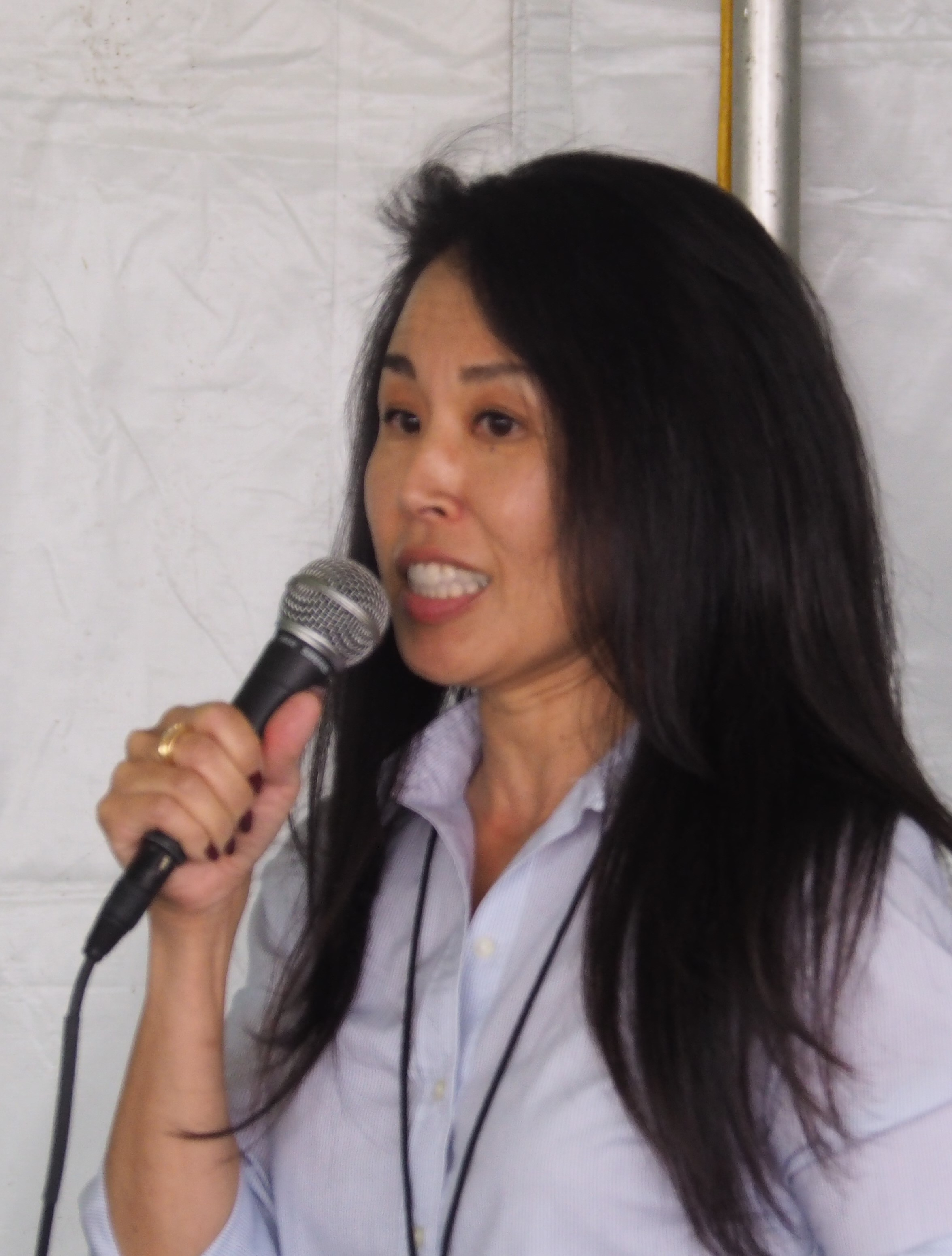 Patti Kim